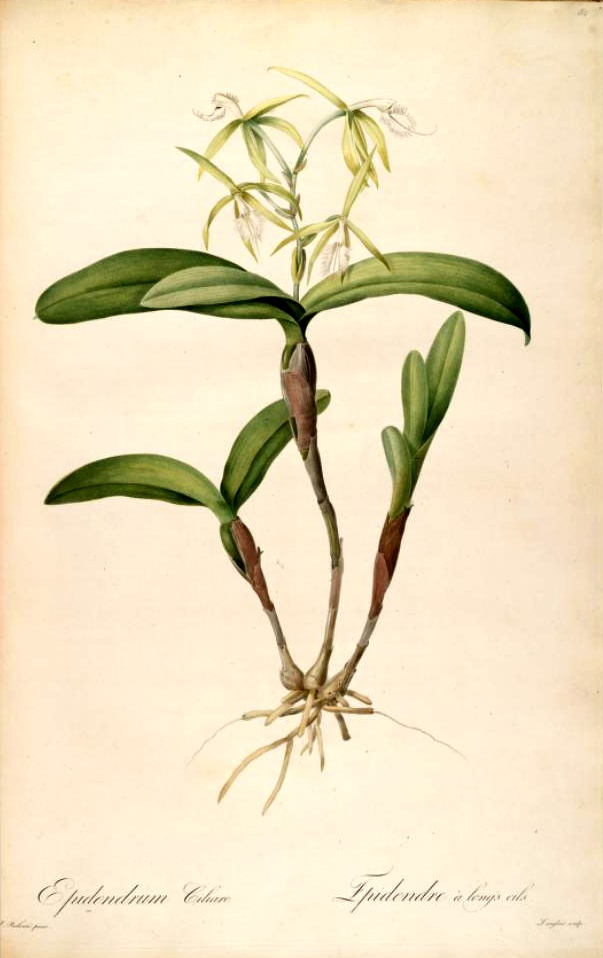 Illustration of Epidendrum ciliare